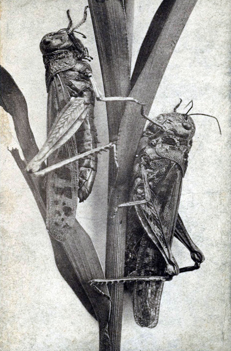 Minnesota locusts (Rocky Mountain locust, Melanoplus spretus) of the 1870s.